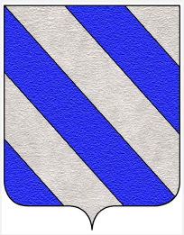 Blason Carpegna-Gattara